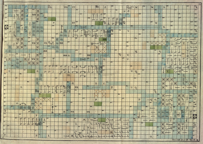 This sheet of paper is the playing field for a wargame invented in 1780 by Johann Christian Ludwig Hellwig.